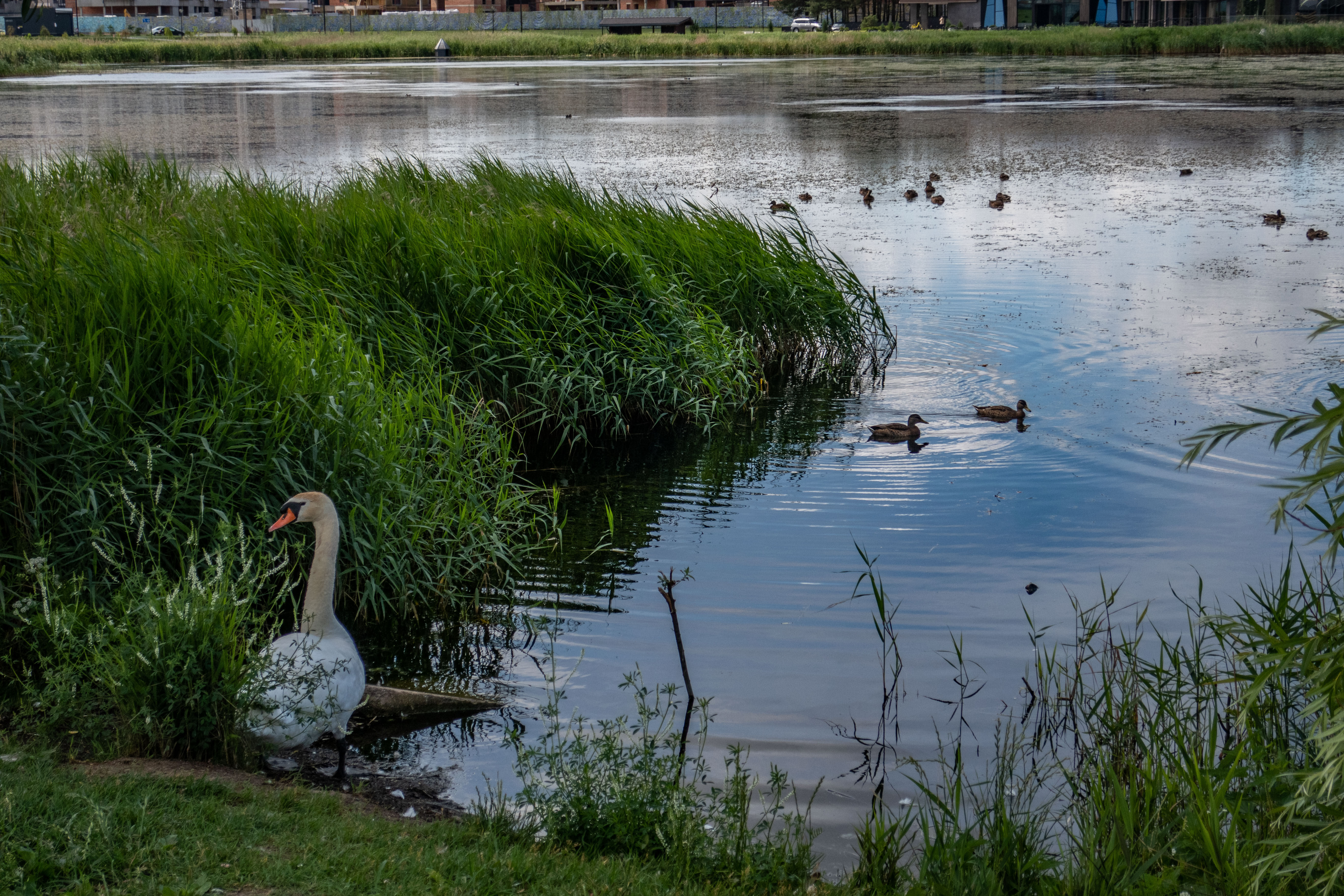 Republican biological reserve Liebiadziny (Swan's). Minsk, Belarus